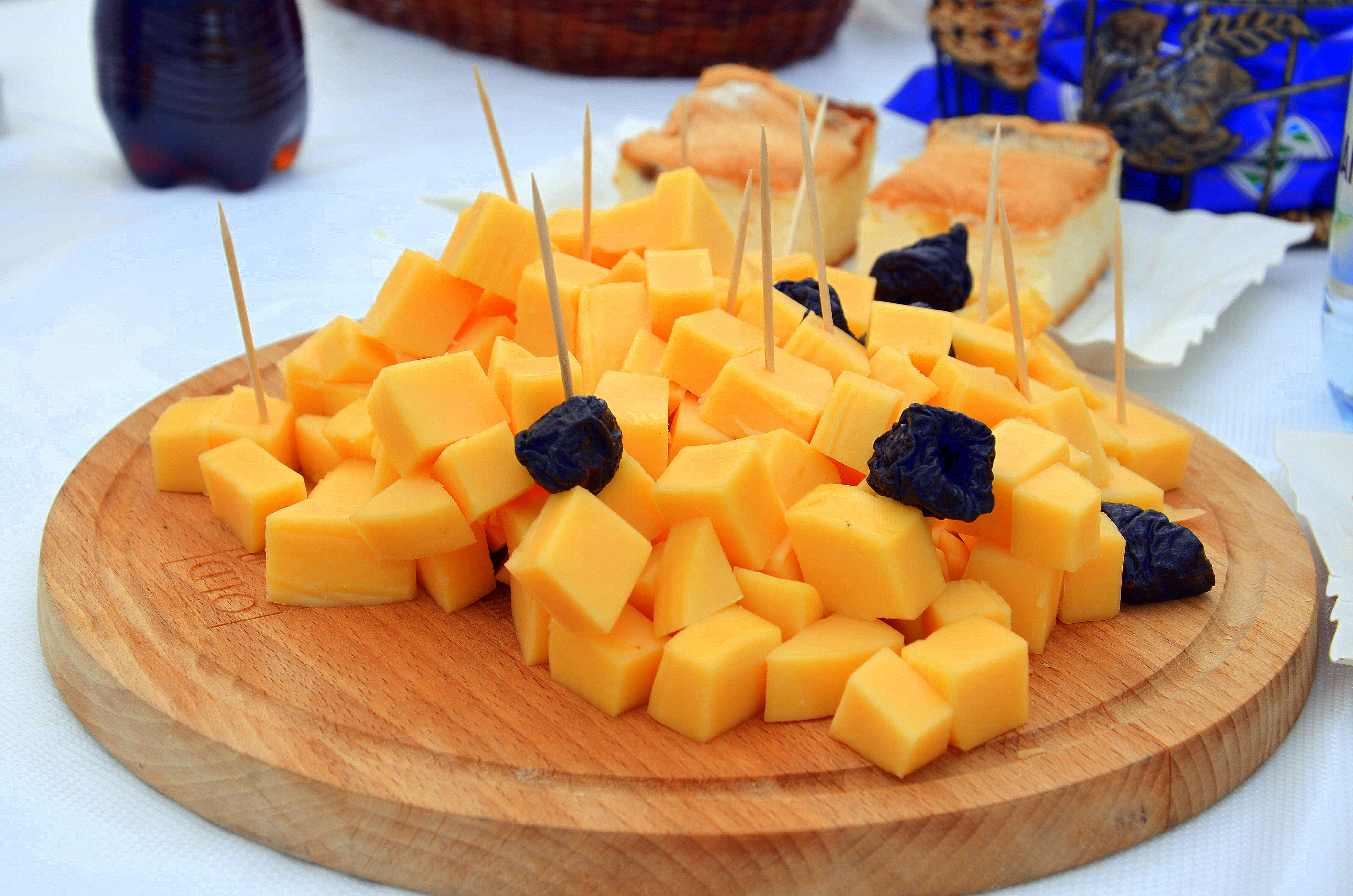 Rycki cheese